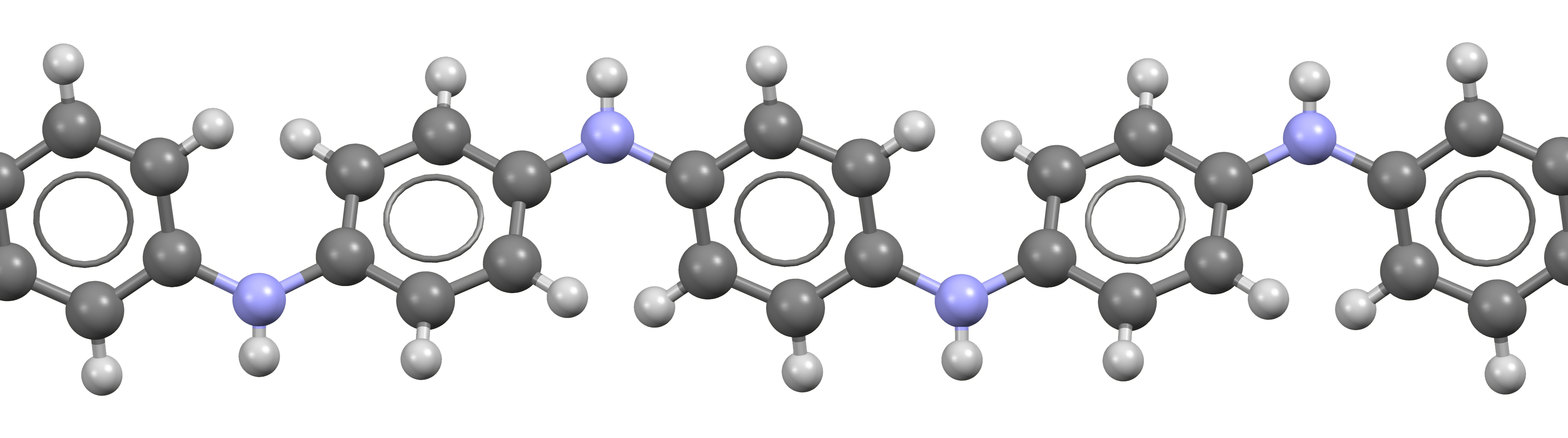 Ball-and-stick model of a short section of polyaniline in the leucoemeraldine base or LEB state, (C6H4NH)n, based on the crystal structure of the phenyl-capped aniline tetramer (Ph/Ph-TANI) determined by single-crystal X-ray diffraction and reported in Acta Cryst. E (2002) 58 o343-o344 (CSD entry FADDUK). Colour code: Carbon, C: grey Hydrogen, H: white Nitrogen, N: blue Model manipulated and image generated in CCDC Mercury 3.8.